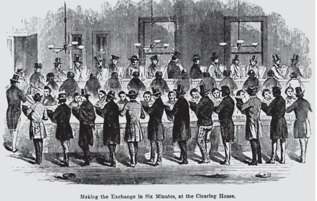 Making the exchange, depositing checks in other bankers' check boxes for clearing